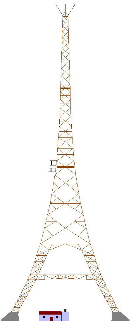 Drawing of former wooden radio tower Ismaning. I made this drawing by my own and I allow its usage in Wikipedia.